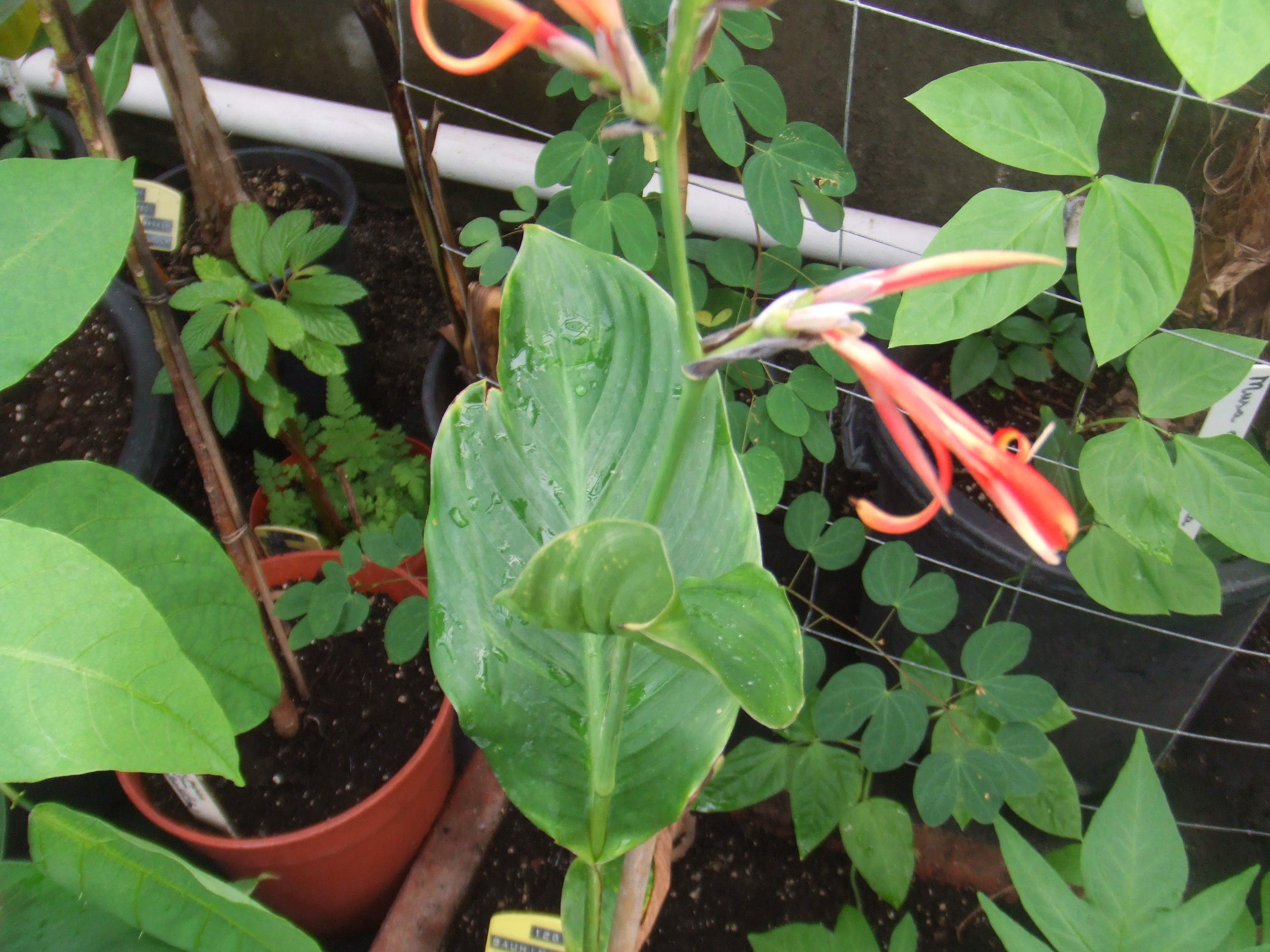 Canna brasiliensis, picture taken at the Botanische tuin TU Delft in Delft, The Netherlands